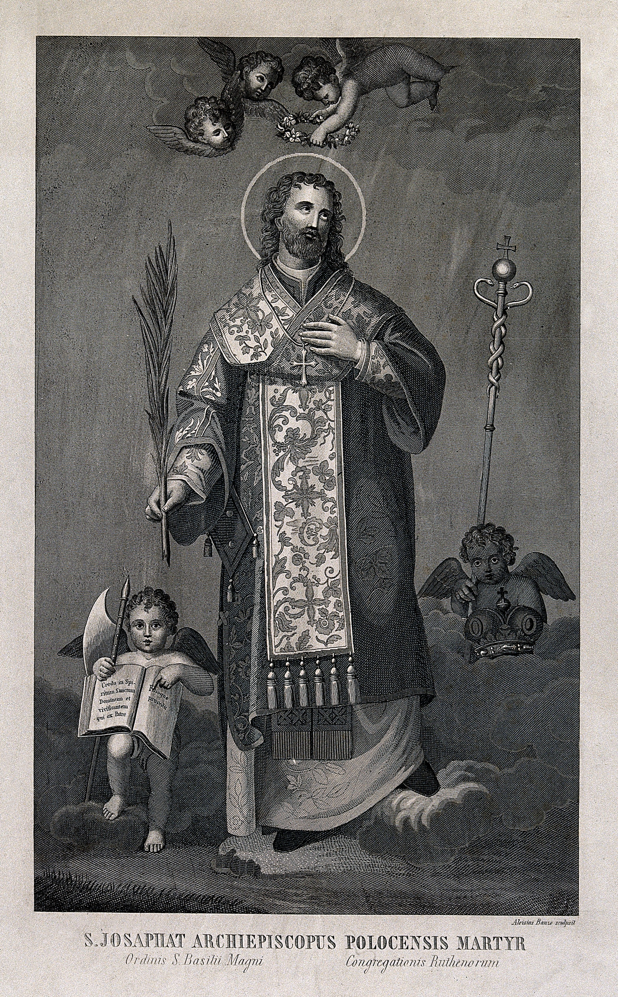 Saint Josaphat. Line engraving by A. Banzo. Iconographic Collections